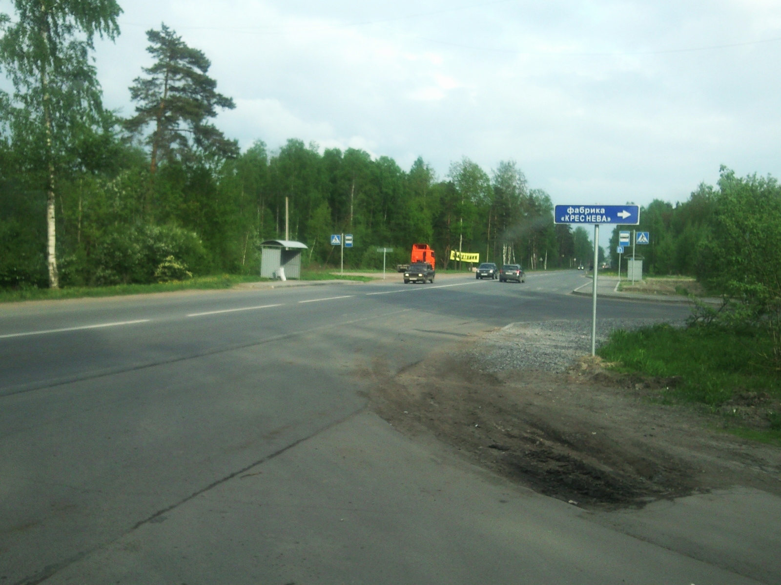 Volkhonskoye Shosse in Saint Petersburg, Russia